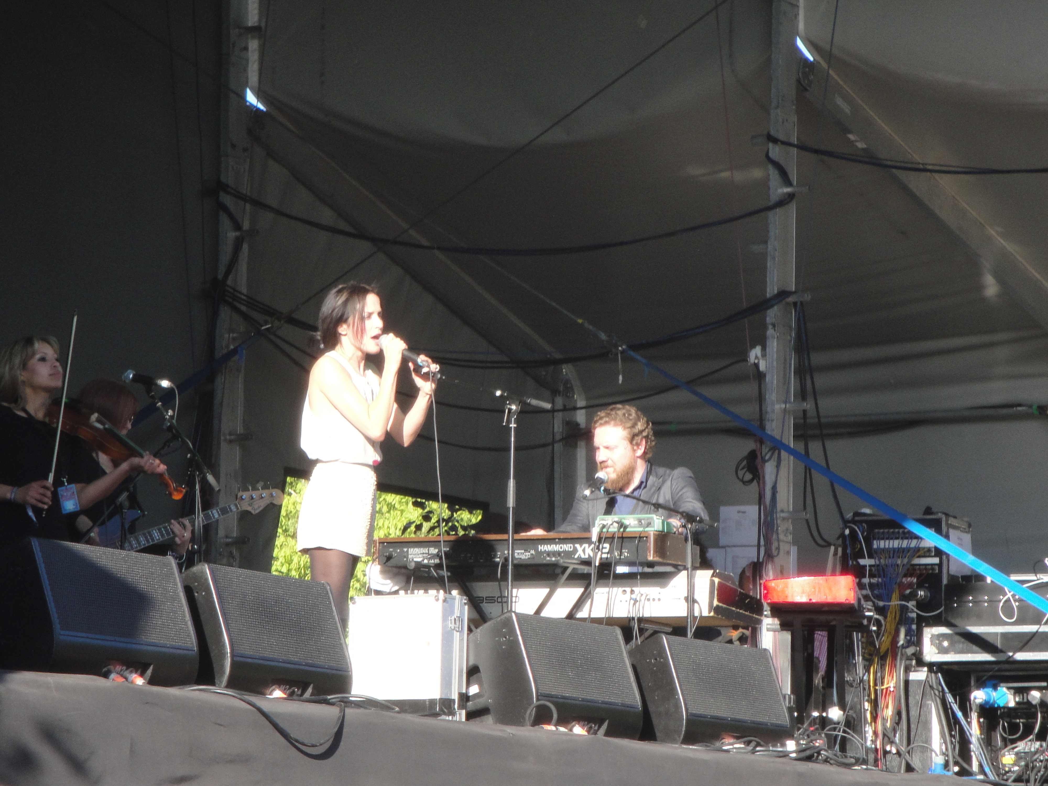 Andrea Corr, performing on the Garden Stage of the Isle of Wight Festival 2011, held in Seaclose Park, Newport, Isle of Wight. The day before, Sharon Corr had performed in the Big Top Arena.